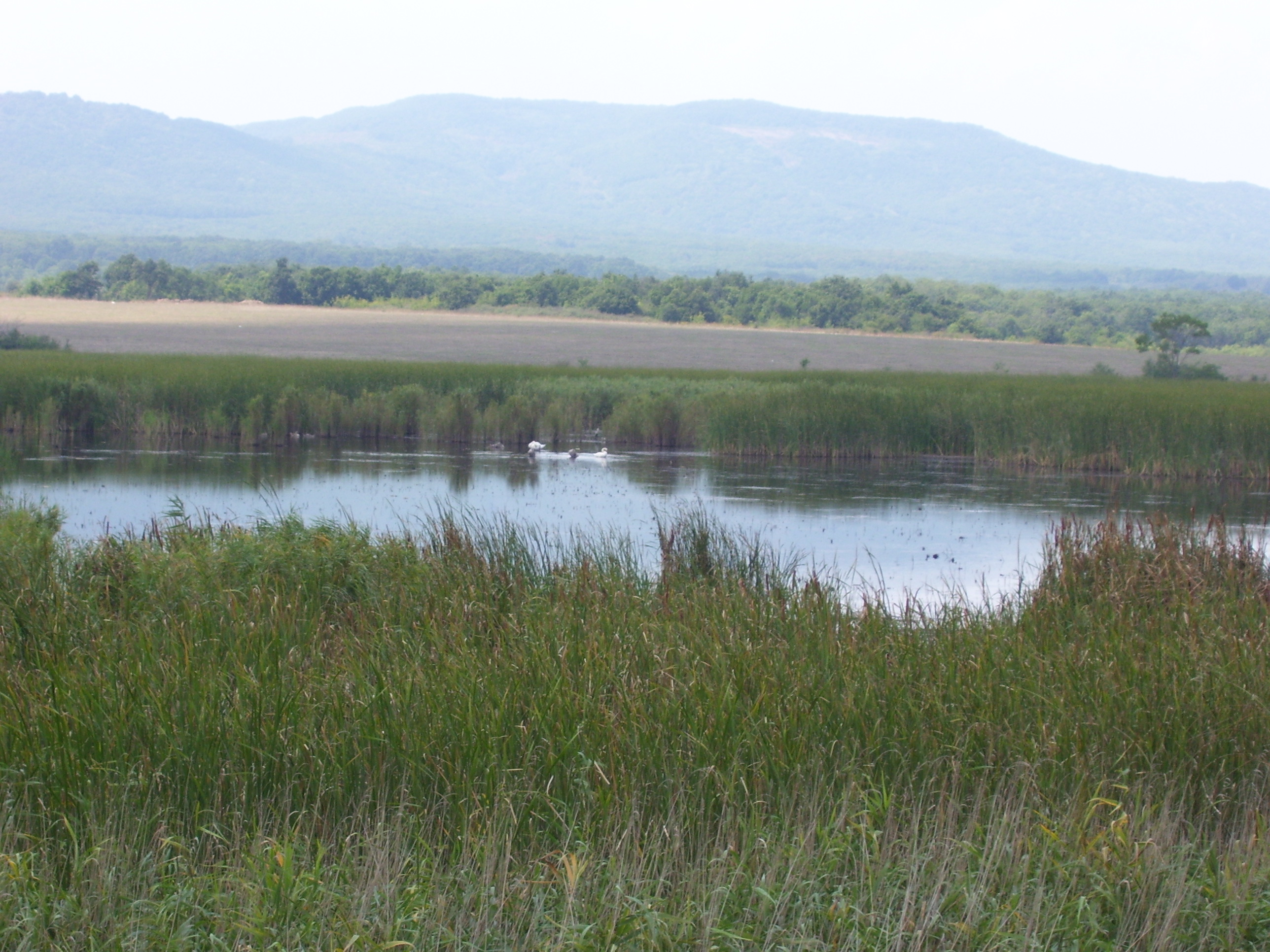 Swans in Alepu, Bulgaria